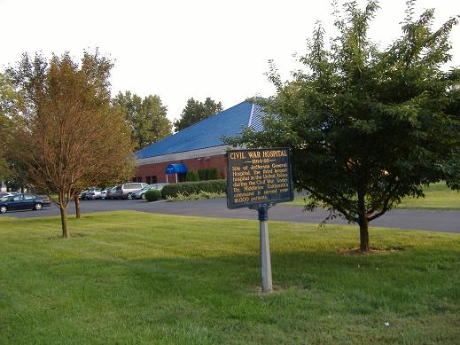 The Clark 40 Temple, built where Jefferson General Hospital was in Port Fulton, now Jeffersonville, Indiana. Besides Clark Lodge #40, which owns it, the other tenants are Jeffersonville Lodge #340, the Eastern Star chapters of Jeffersonville Chapter #327 and Bright Star #532, and Job's Daughters Bethel #24, all in the Indiana jurisdictions of their Grand Lodge, Grand Chapter, or Grand Bethel.